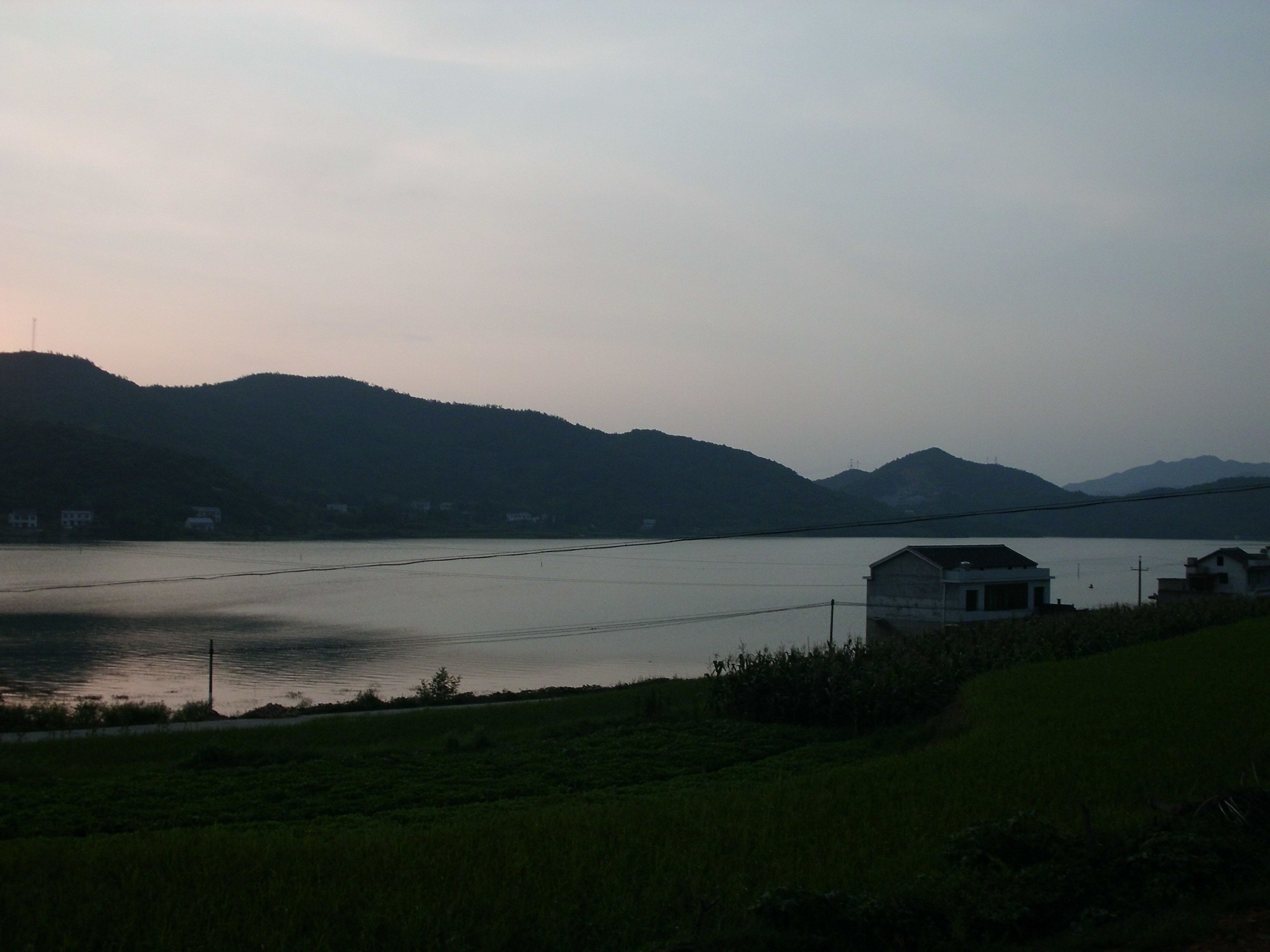 桃林水库风景